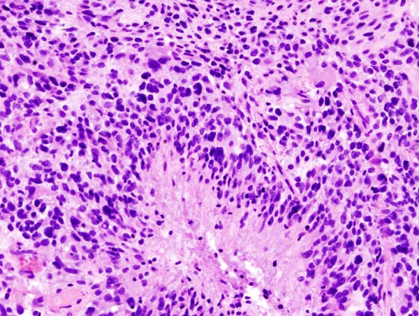 Histopathological image of cerebral glioblastoma. Hematoxylin & esoin stain.